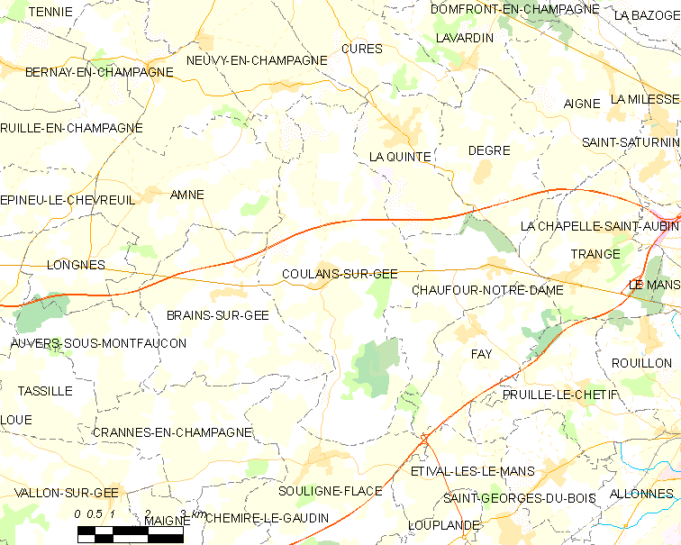 Map of French municipality